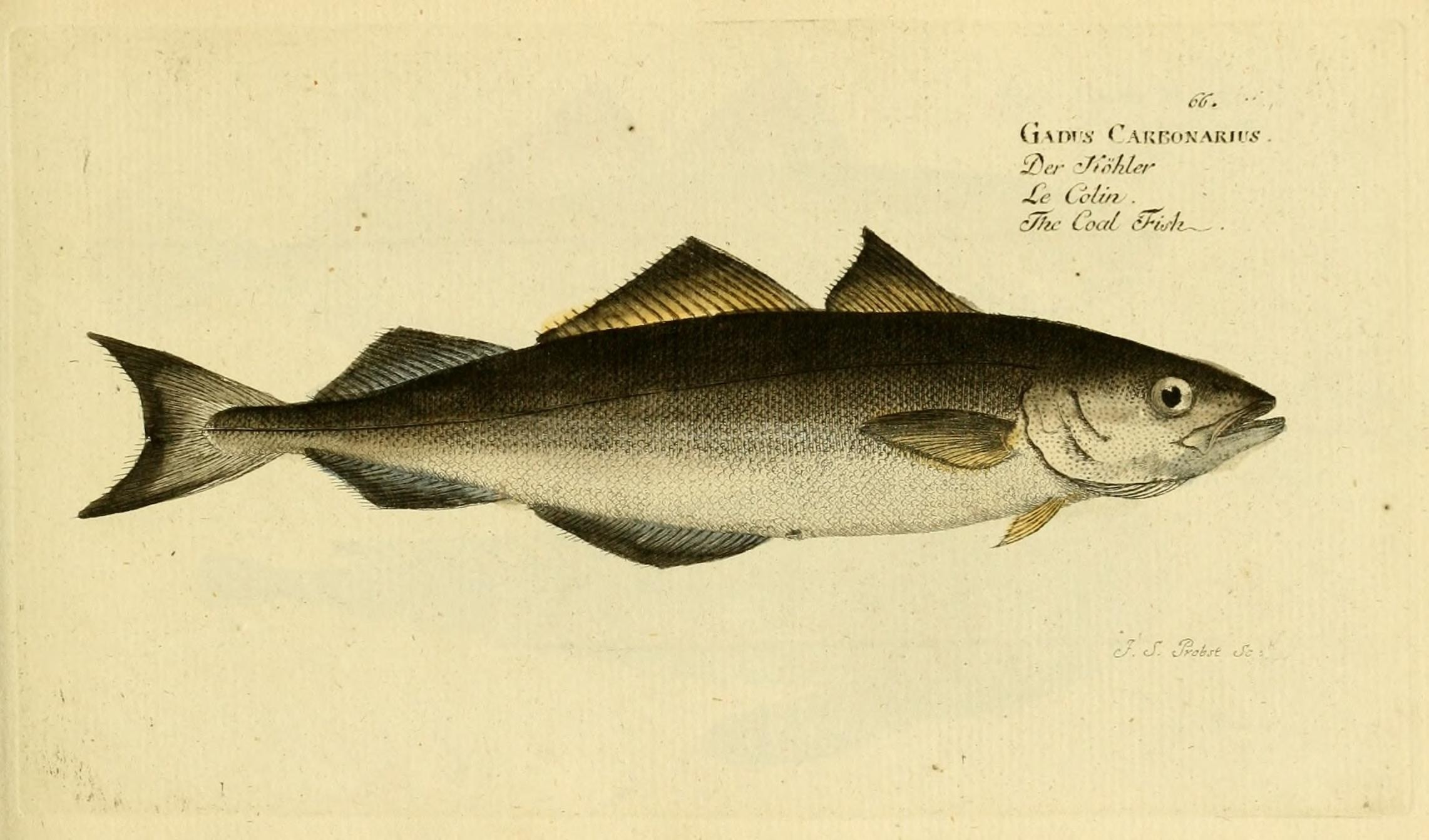 cir. (i vous Cakbonariiw 2)er 'Tfohter Xe ( otin. . ■